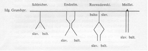 A sketch of Balto-Slavic theories that were discussed in the 1920s, taken from a scan of the book in Thomas Olander's Ph.D. thesis.